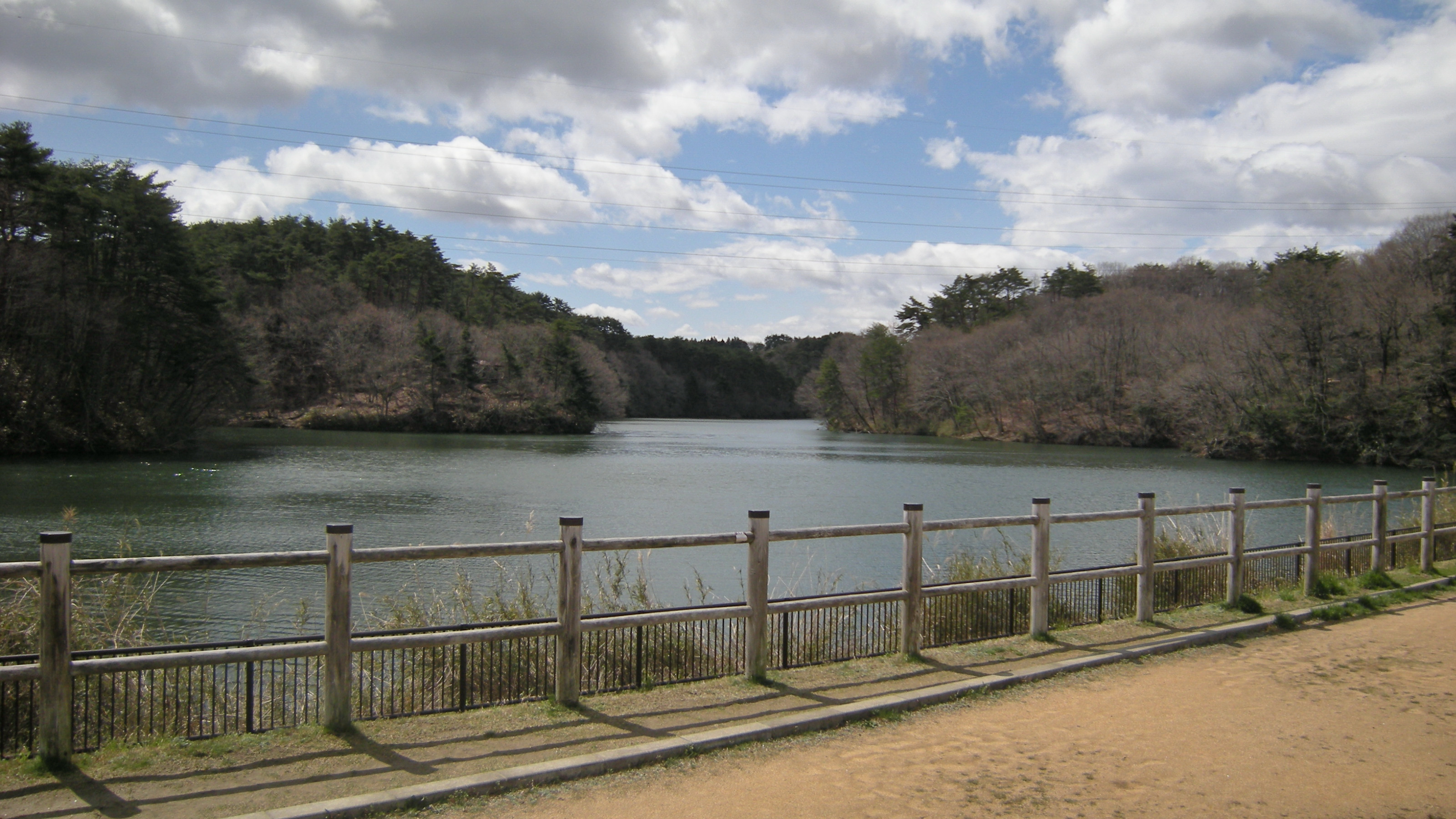 Sankyo Dike in Mizunomori Park, Sendai city, Miyagi prefecture, Japan. Despite the name, it's actually a kind of pond or swamp. Taken from a dike above the camp site in the park.